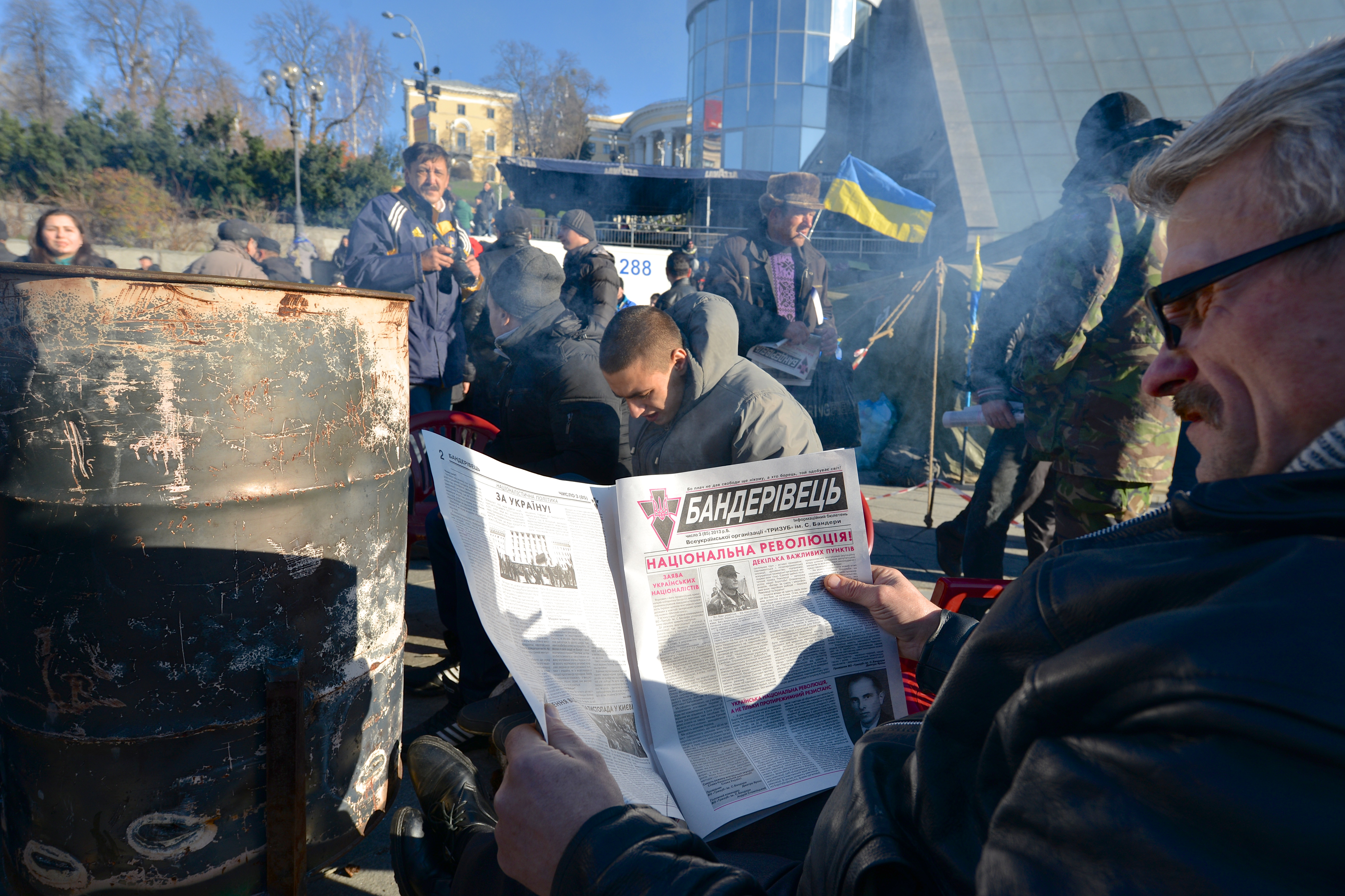 Reading a revolutionary newspaper «Banderivets» on Euromaidan in Kiev, November 27, 2013.